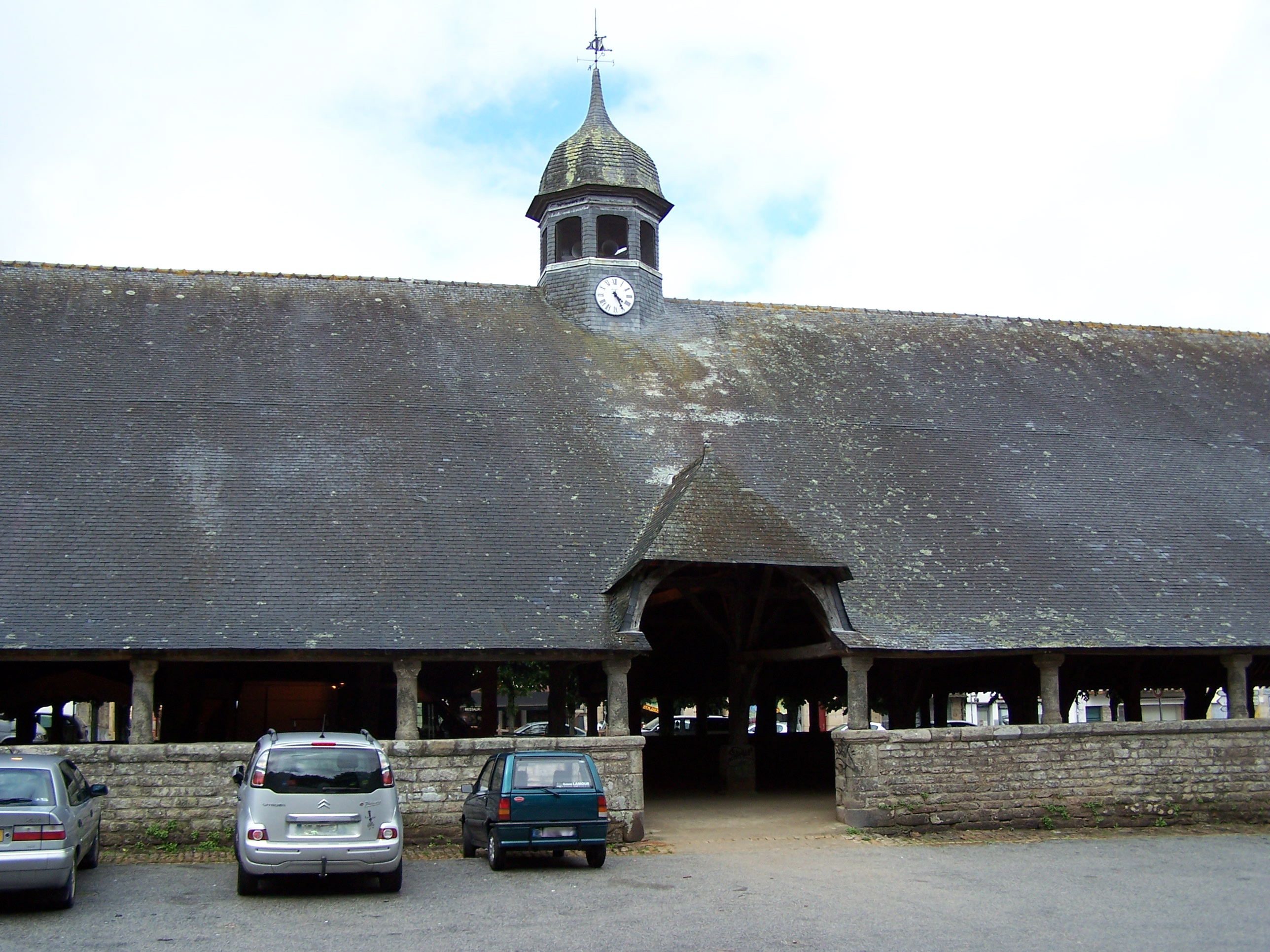 Vue des halles du XVIe siècle au Faouët